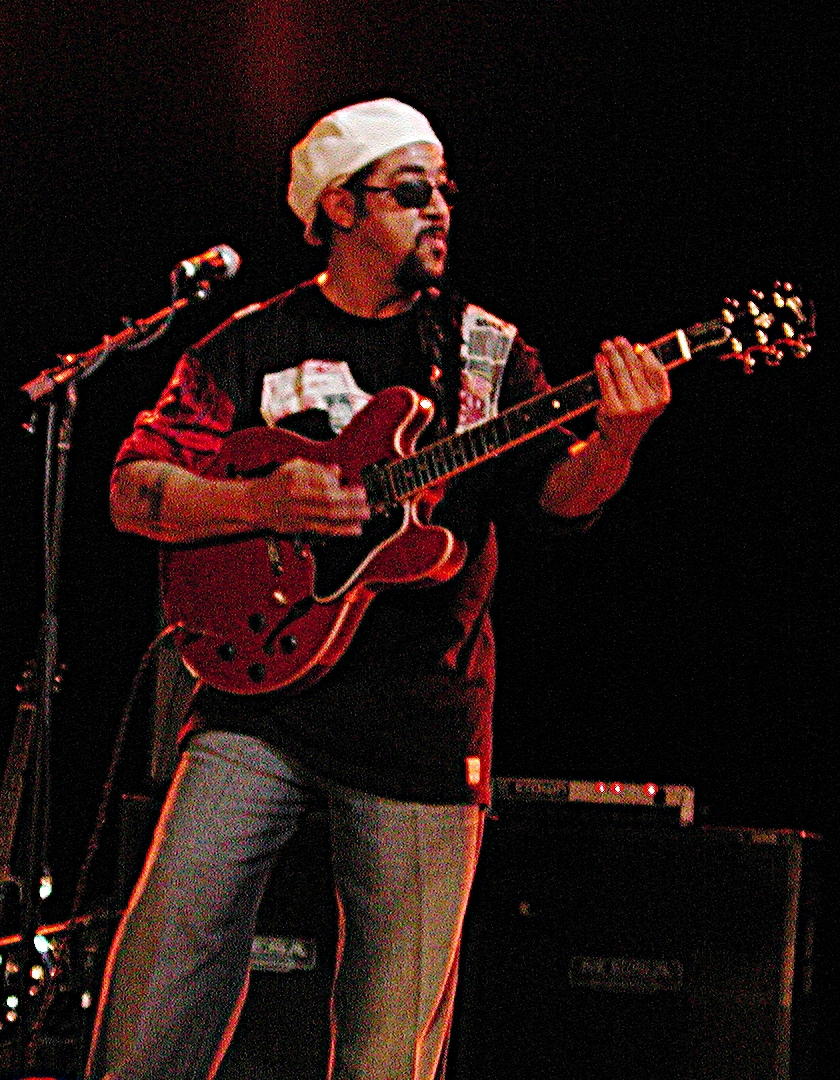 Leo Nocentelli performing with the original Meters lineup (George Porter Jr., Art Neville, Ziggy Modeliste) at Nokia Theater, New York City, on August 3, 2006.